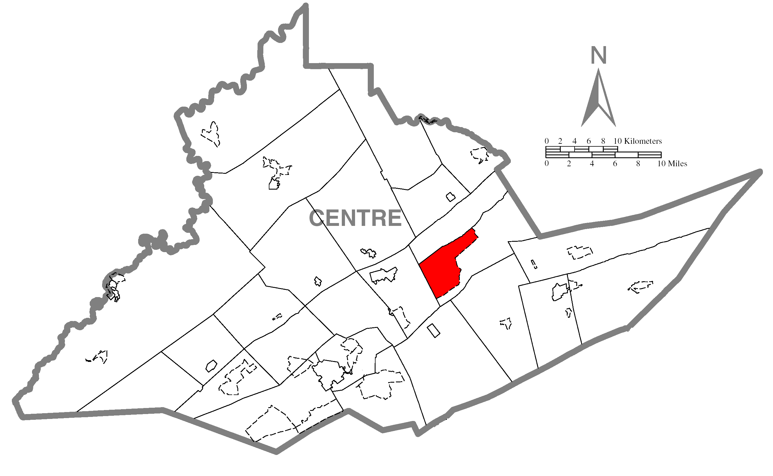 A map of Centre County showing Zion, Pennsylvania (alternate) highlighted on the map.